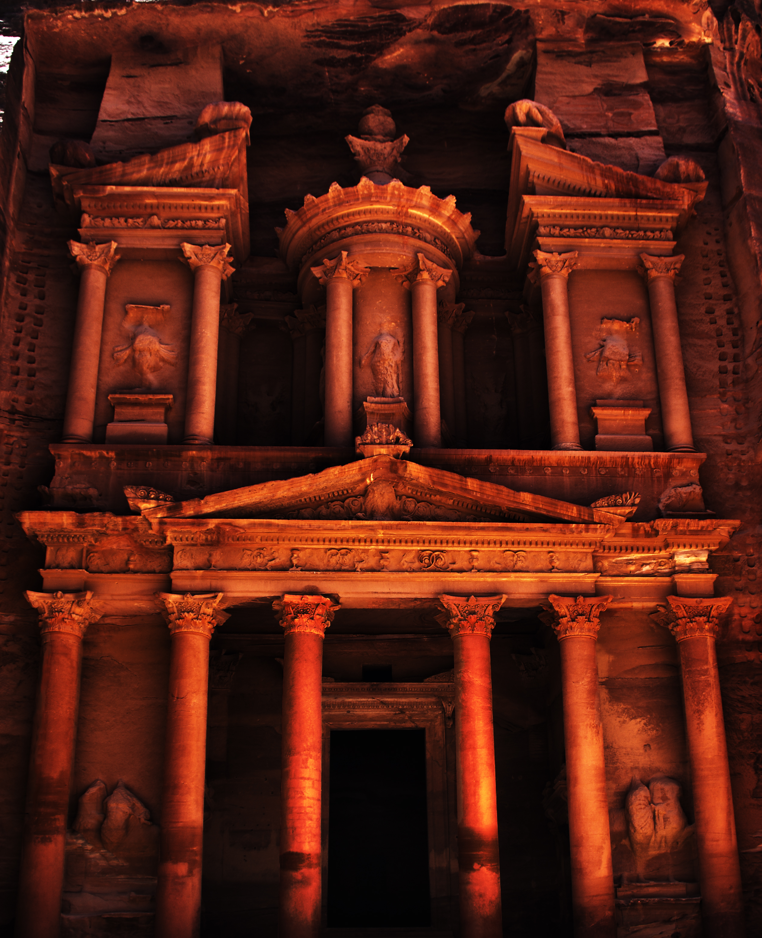 is one of the most elaborate temples in the ancient Jordanian city of Petra. As with most of the other buildings in this ancient town, including the Monastery (Arabic: Ad Deir), this structure was also carved out of a sandstone rock face. It has classical Greek-influenced architecture, and it is a popular tourist attraction.